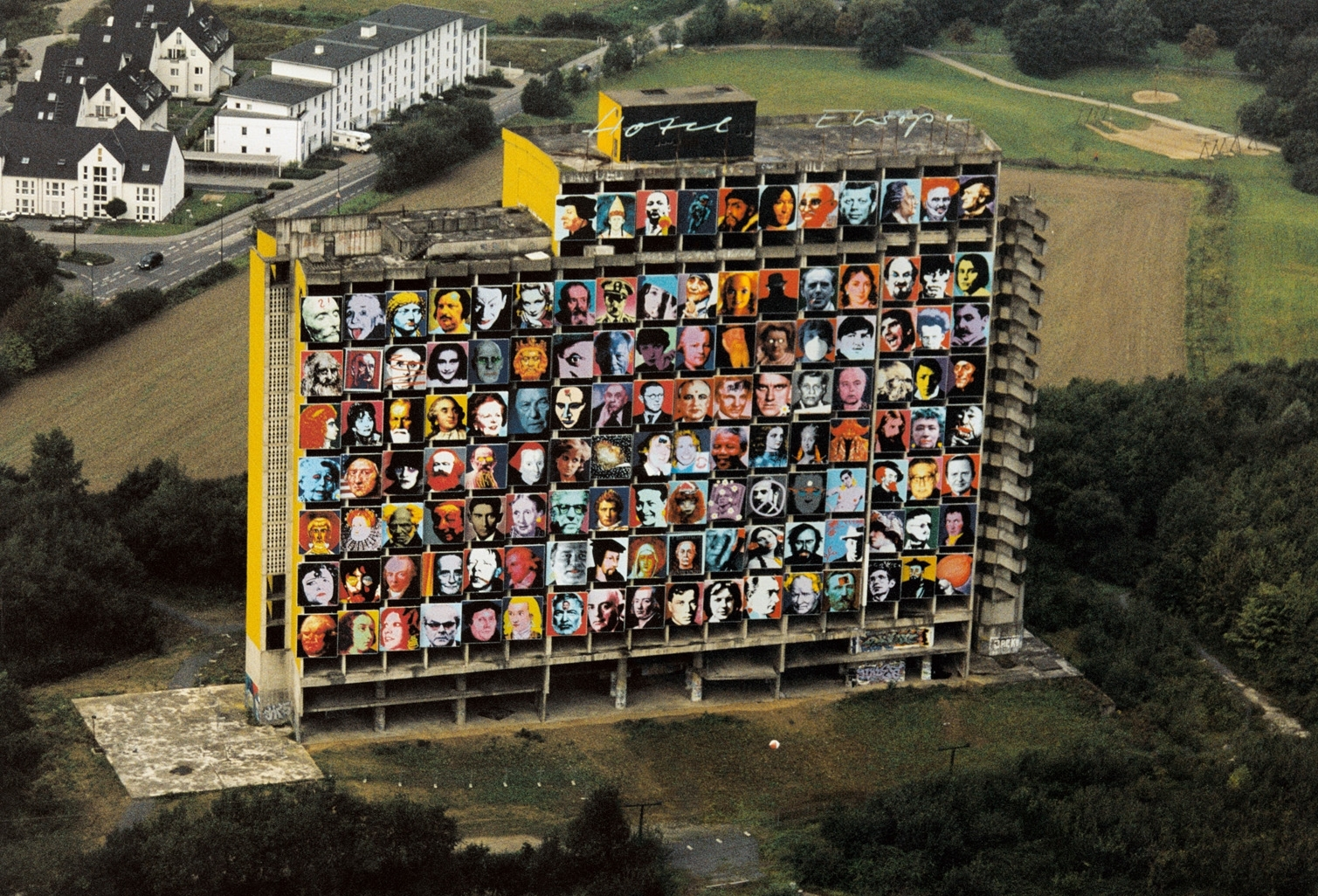 Hotel Europa